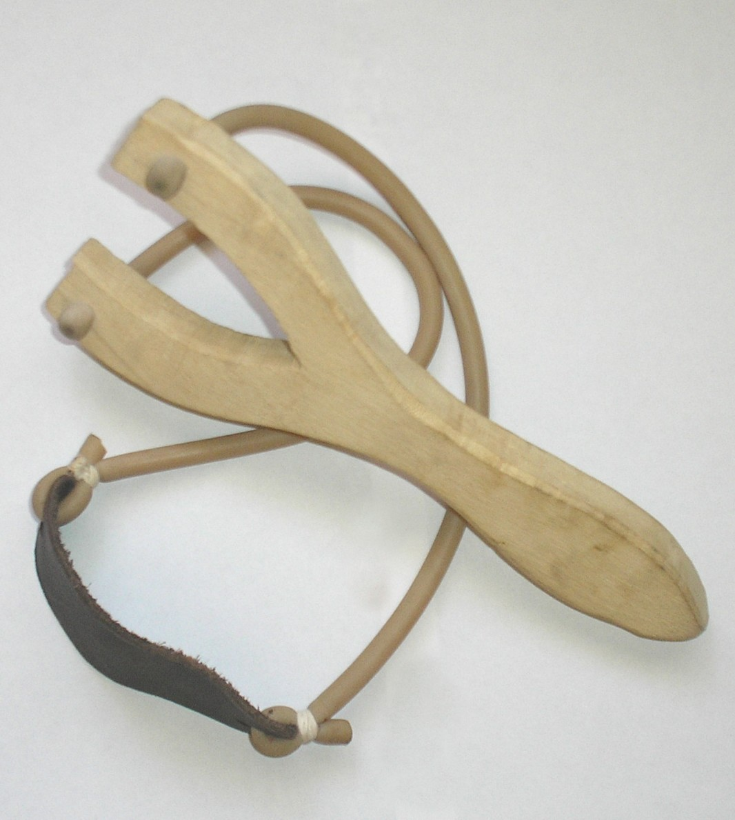 Wooden slingshot with rubber made in Mexico.